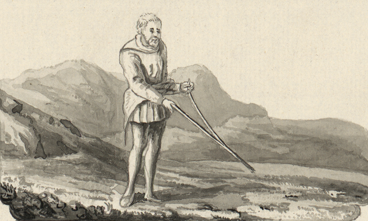 An image from a set of 8 extra-illustrated volumes of A tour in Wales by Thomas Pennant (1726-1798) that chronicle the three journeys he made through Wales between 1773 and 1776. These volumes are unique because they were compiled for Pennant's own library at Downing. This edition was produced in 1781. The volumes include a number of original drawings by Moses Griffiths, Ingleby and other well known artists of the period. Thomas Pennant (1726-1798)